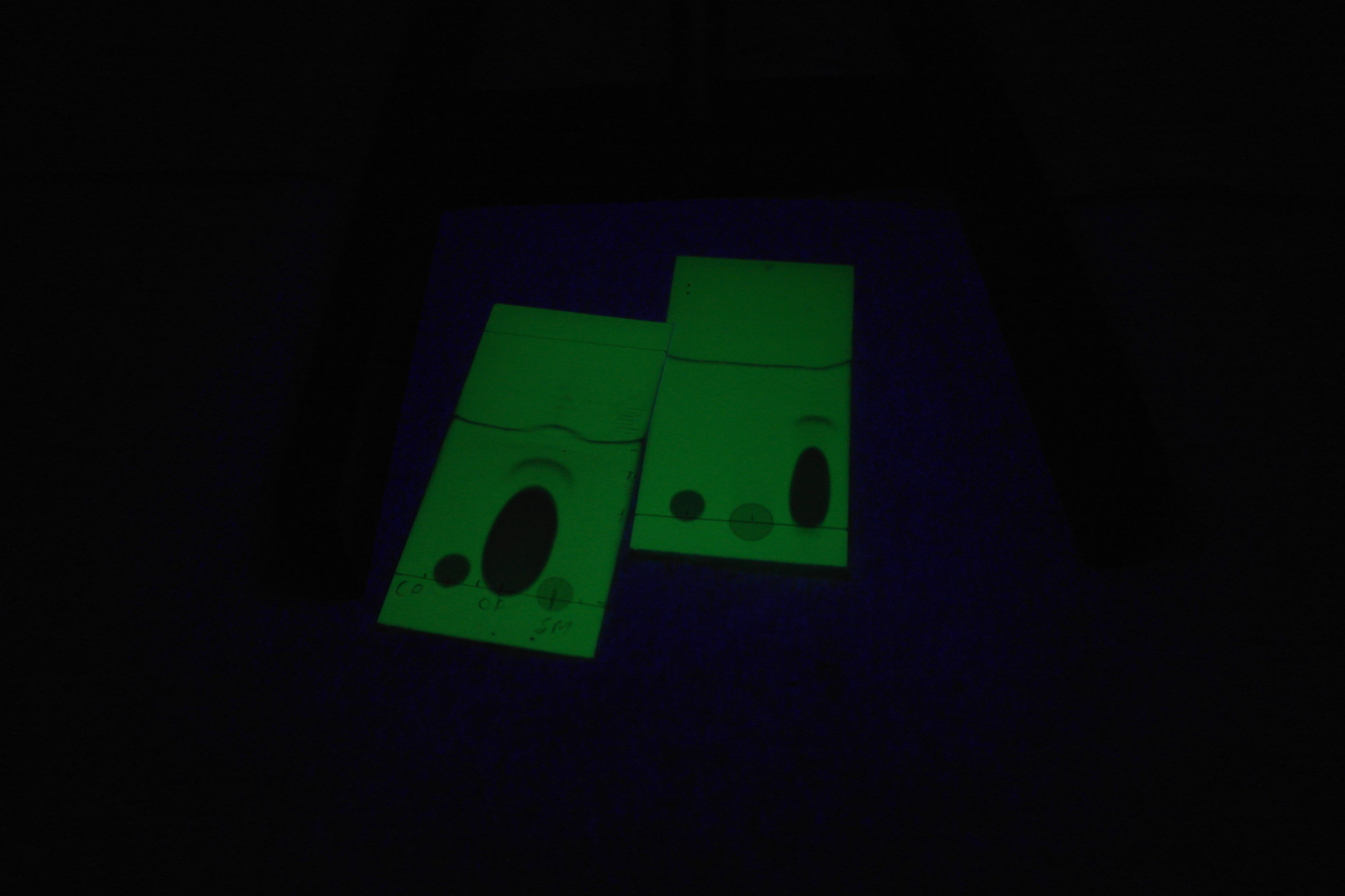 Thin layer chromatography (TLC) sheets under UV light.